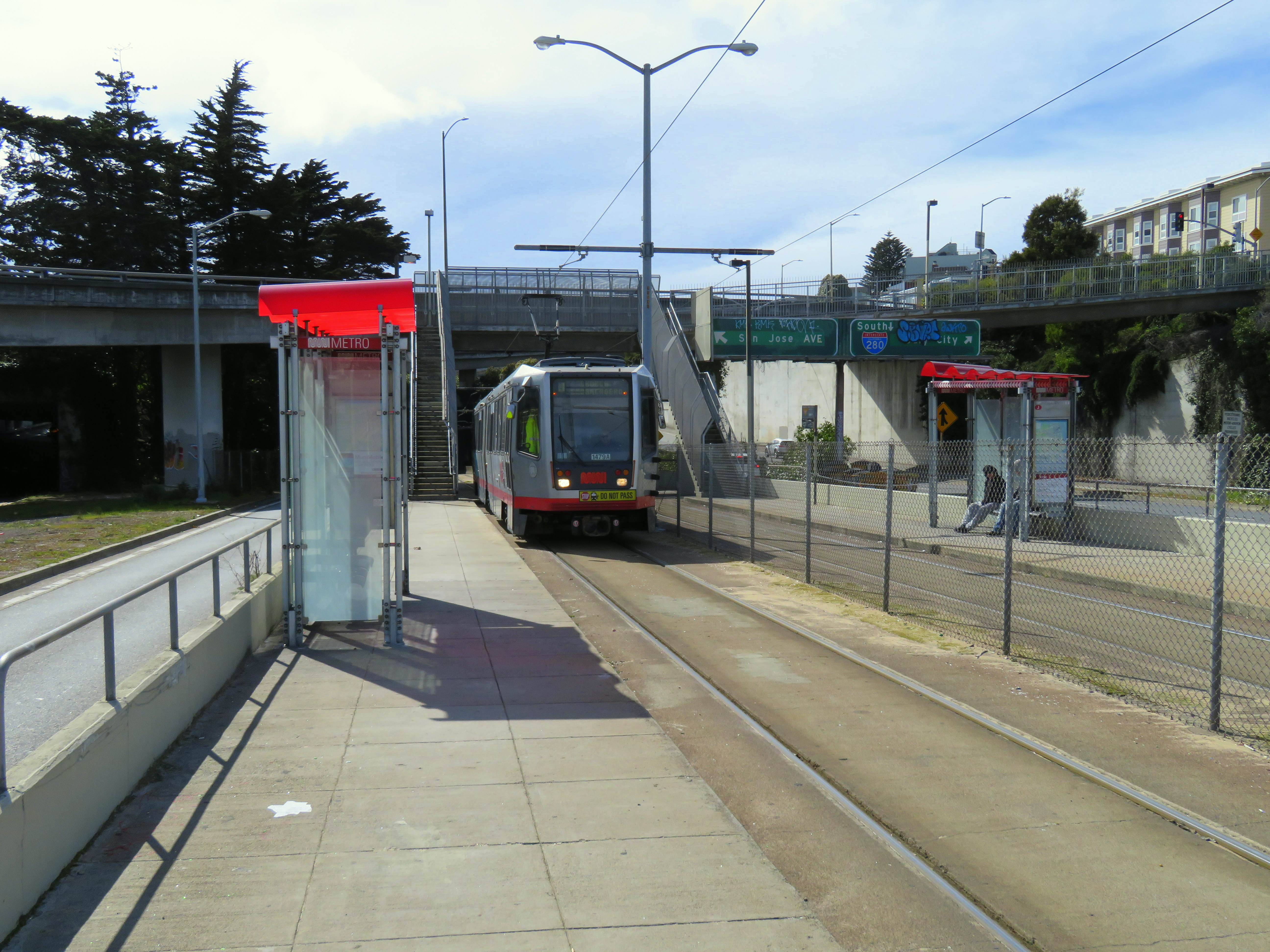 An inbound train arrives at San Jose/Glen Park station in March 2018